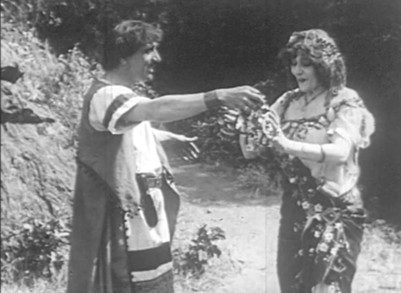 Barrabas (Arthur Maude) woes Judith (Constance Crawley) in the 1913 film "The Shadow of Nazareth"